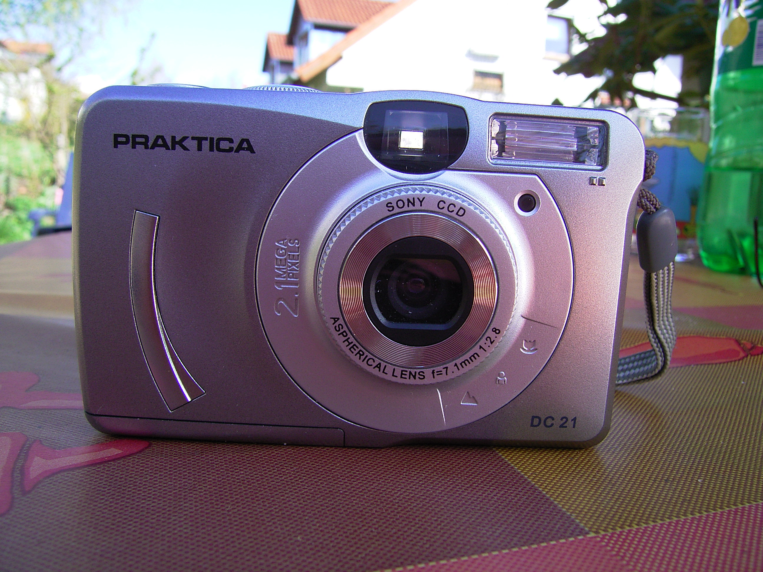 A Praktica Digital Camera